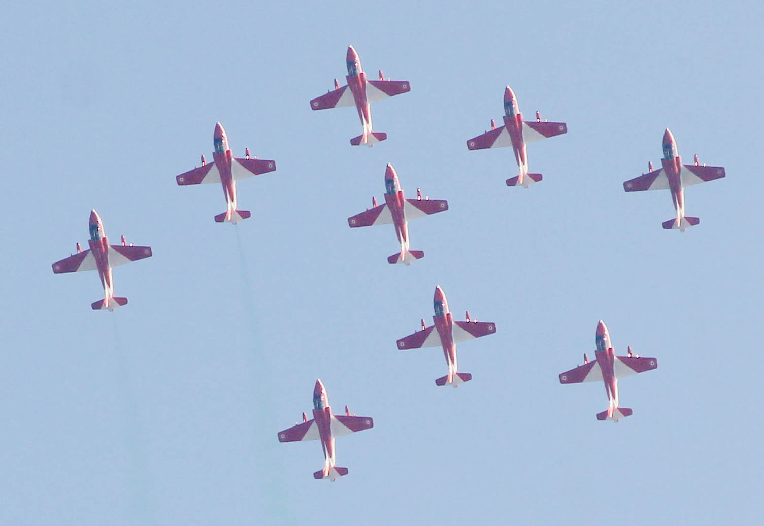 HJT-16 Kiran - Aero India 2011